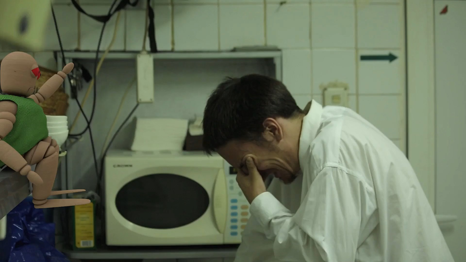 Image from ̊Grofov motel̊ movie.